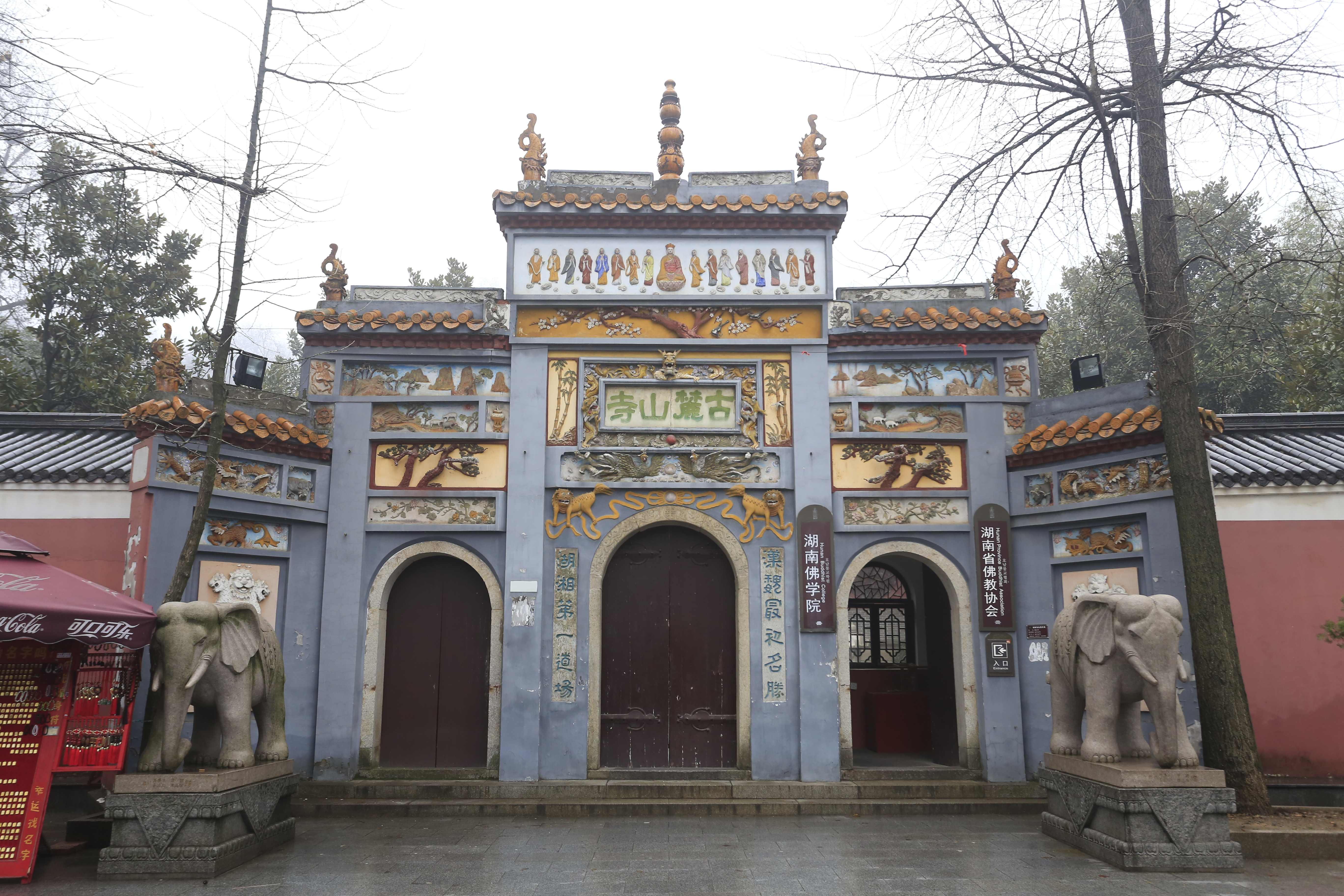 The shanmen at Lushan Temple, in Changsha, Huna, China